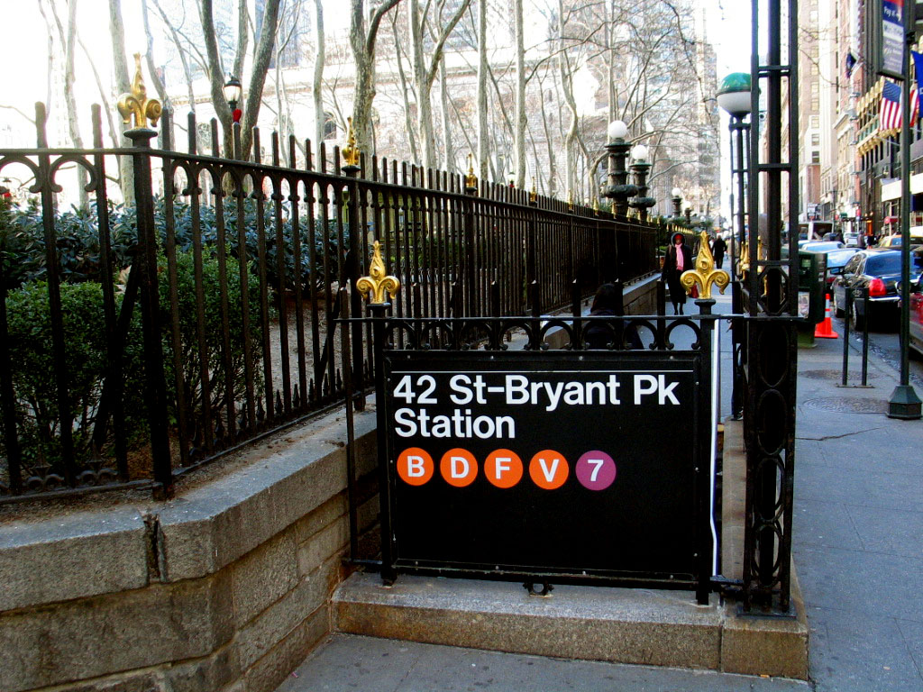 Looking east from 6th Avenue.